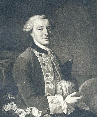 Portrait painting of Ulrich Wilhelm de Roepstorff (1729-1821), Danish Governor-General, Count and landowner